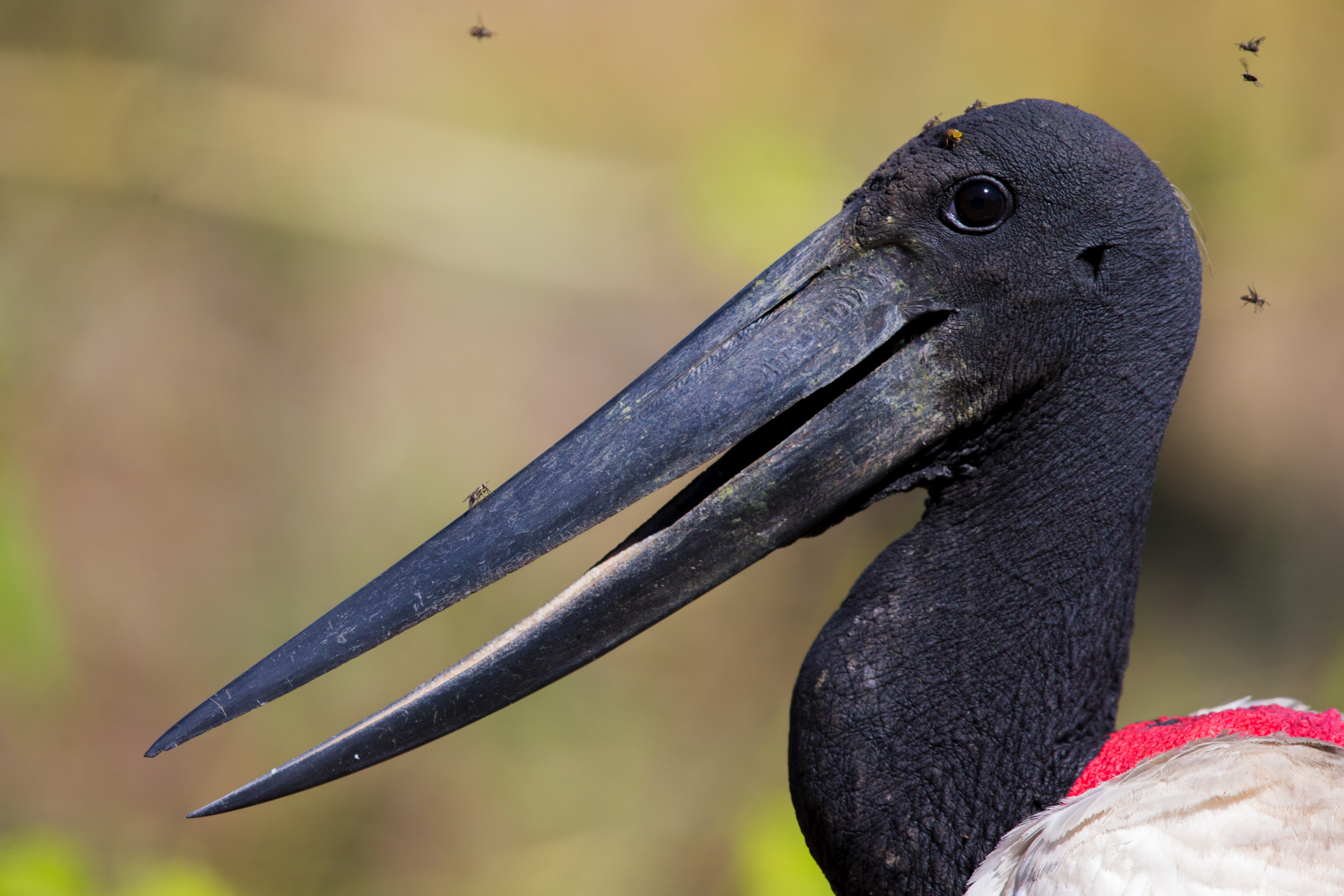 Jabiru